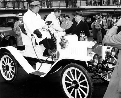 Former U.S. President Harry Truman shakes hands with entertainer Jack Benny. Benny is seated in early Maxwell automobile. Driver not identified. Original caption: "Former President Harry S. Truman and Jack Benny shaking hands. Mr. Benny is being driven in an old Maxwell car. He has arrived in Kansas City for a fund raiser for the Kansas City Symphony Orchestra." [1] Tentative auto identification: 1908 Maxwell Doctor's Roadster? Compare [2] at [3] -- Infrogmation (talk) 01:25, 22 May 2009 (UTC)